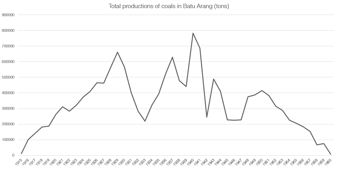 The coal production per ton annually from it's foundation in 1915 until closure in 1960